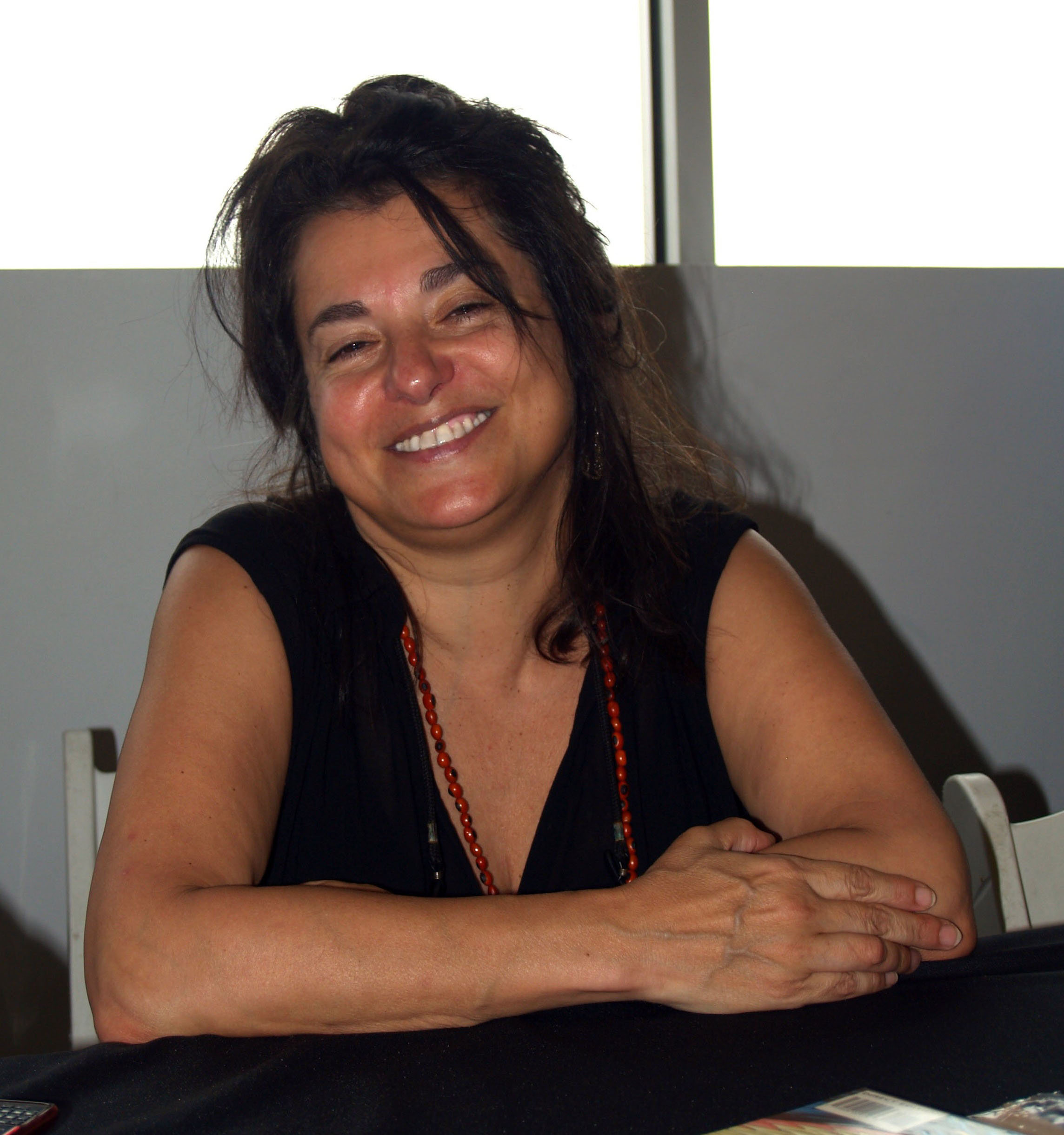 Comics writer/editor Ann Nocenti, during "The Art of Collaboration", a June 28, 2013 discussion panel focusing on the collaboration between writers and artists in comics, at the 2013 Wizard World New York Experience Comic Con at Pier 36 in Manhattan. This photo was created by Luigi Novi. It is not in the public domain, and use of this file outside of the licensing terms is a copyright violation.